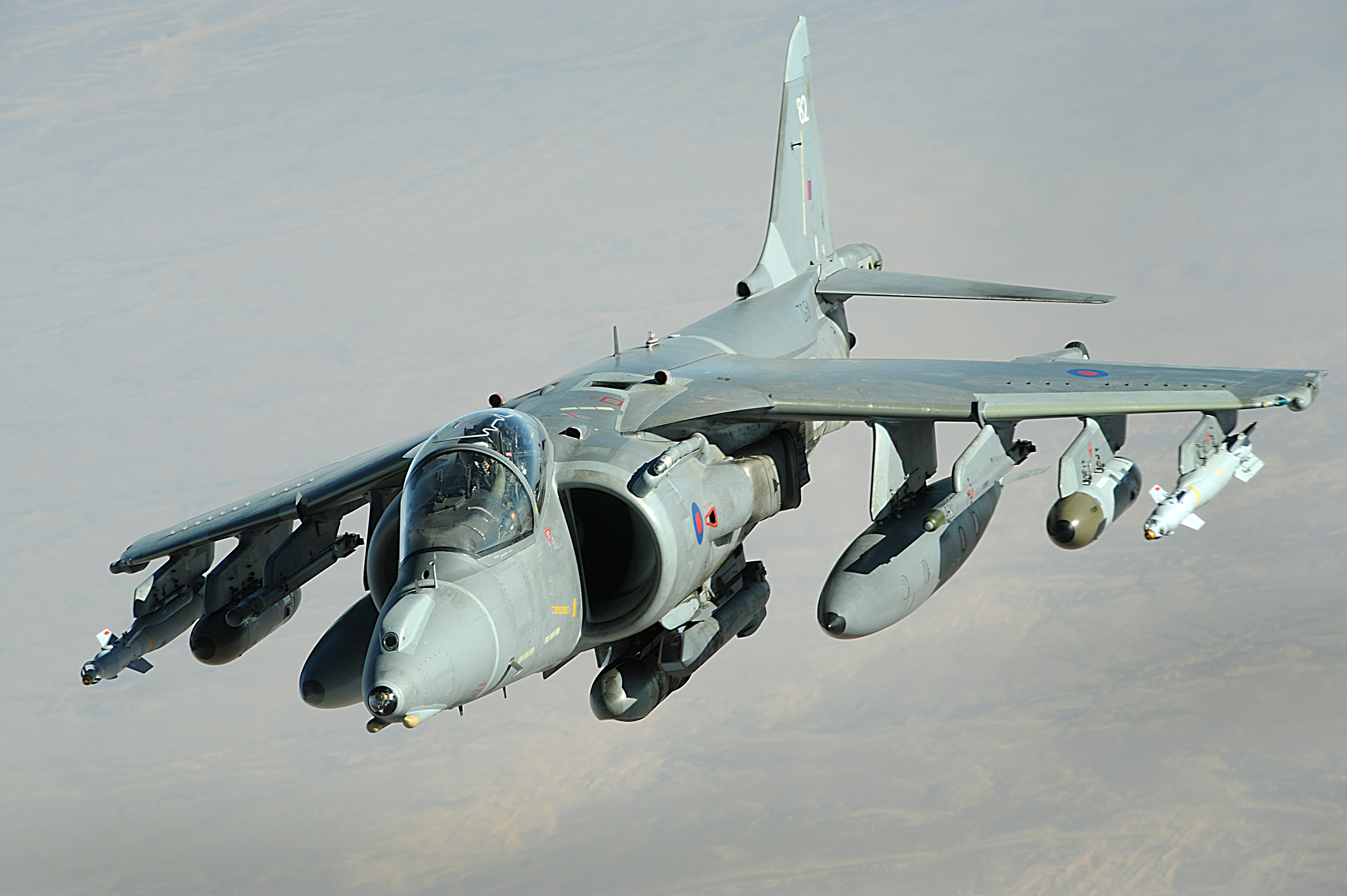 A Royal Air Force British Aerospace Harrier GR.9 aircraft conducts a combat patrol over Afghanistan on 12 December 2008.